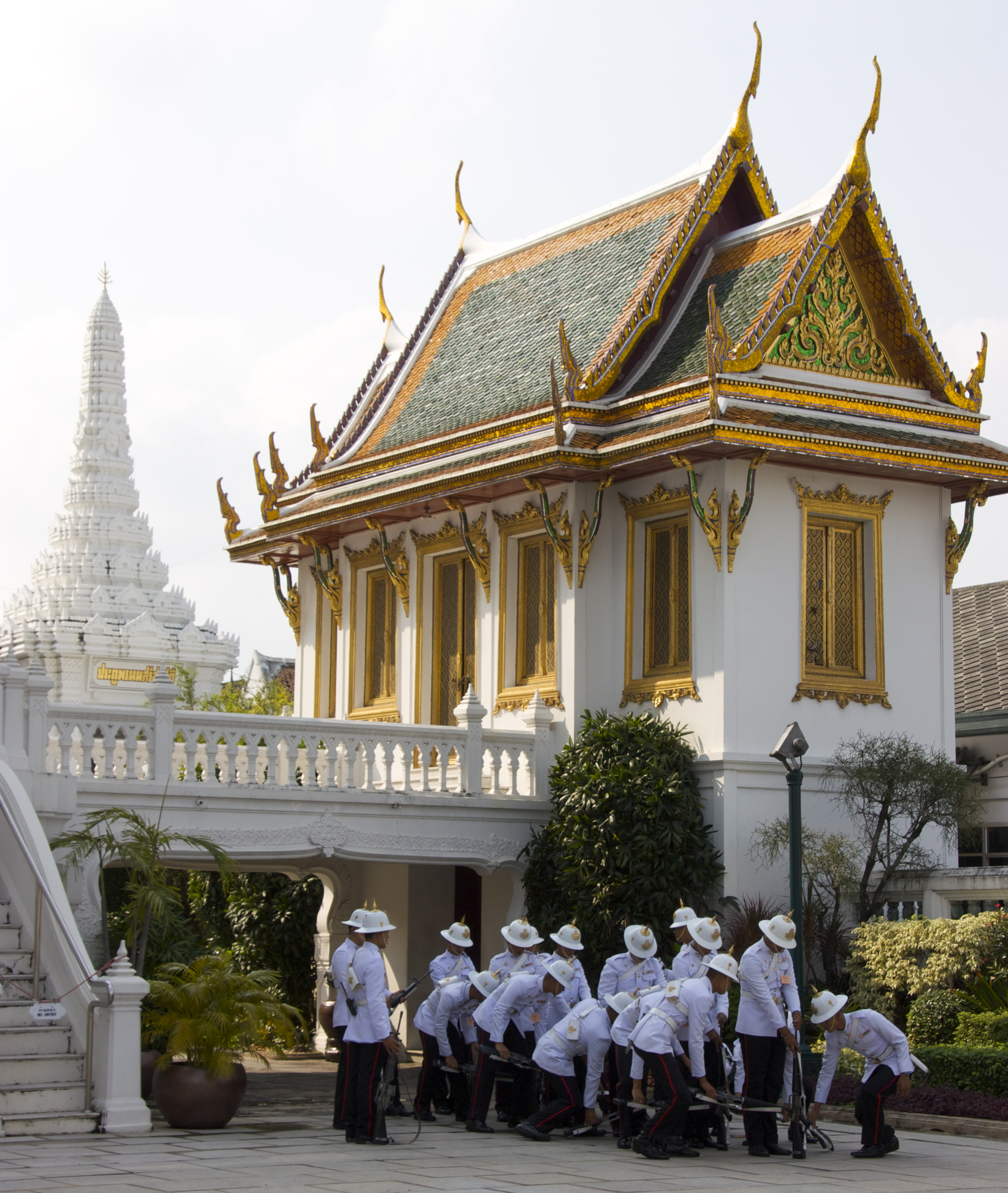 Ho Plueng Krueng, Maha Prasat group, Grand Palace, Bangkok.